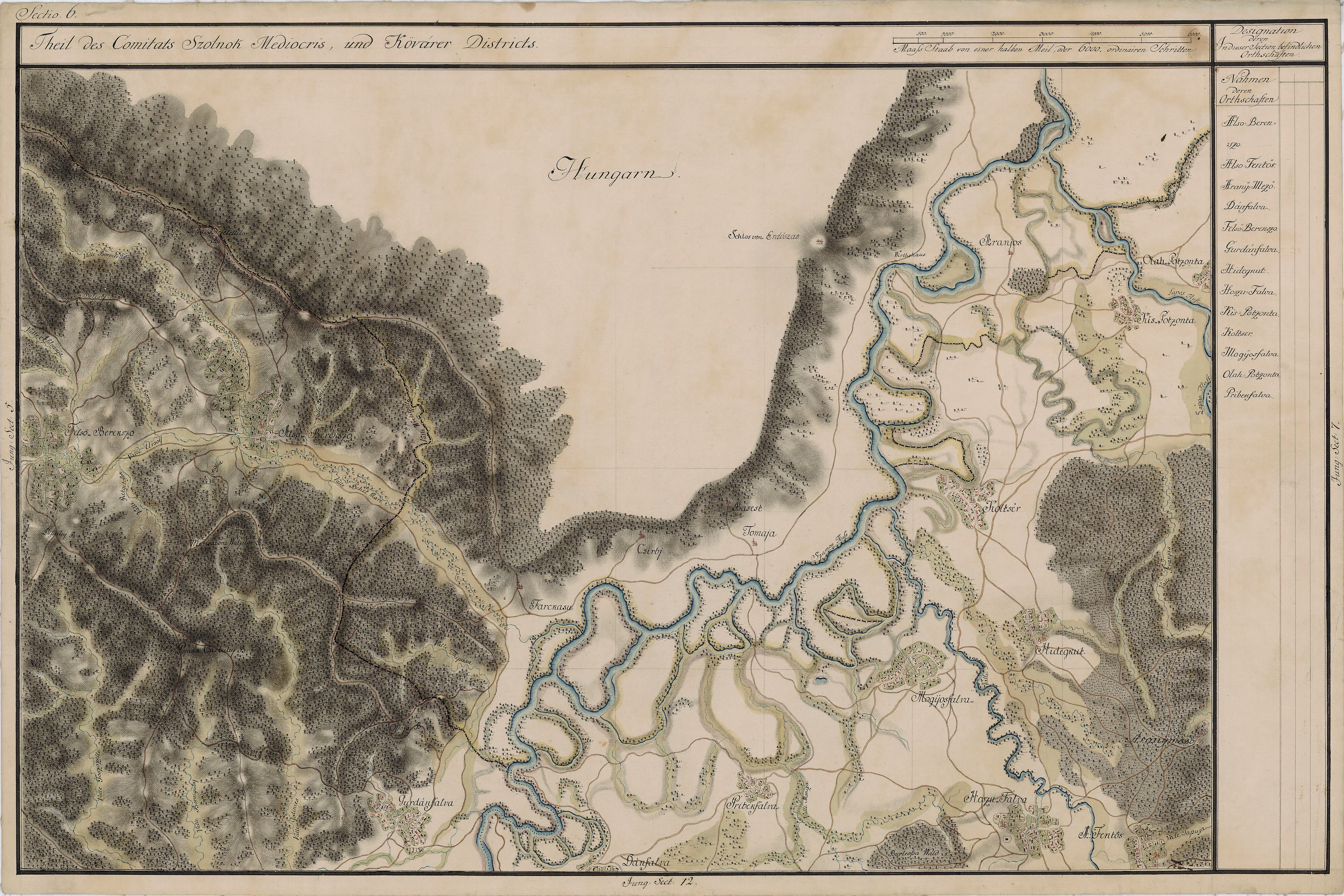 Grand Duchy of Transylvania, 1769-1773. Josephinische Landaufnahme pg.006